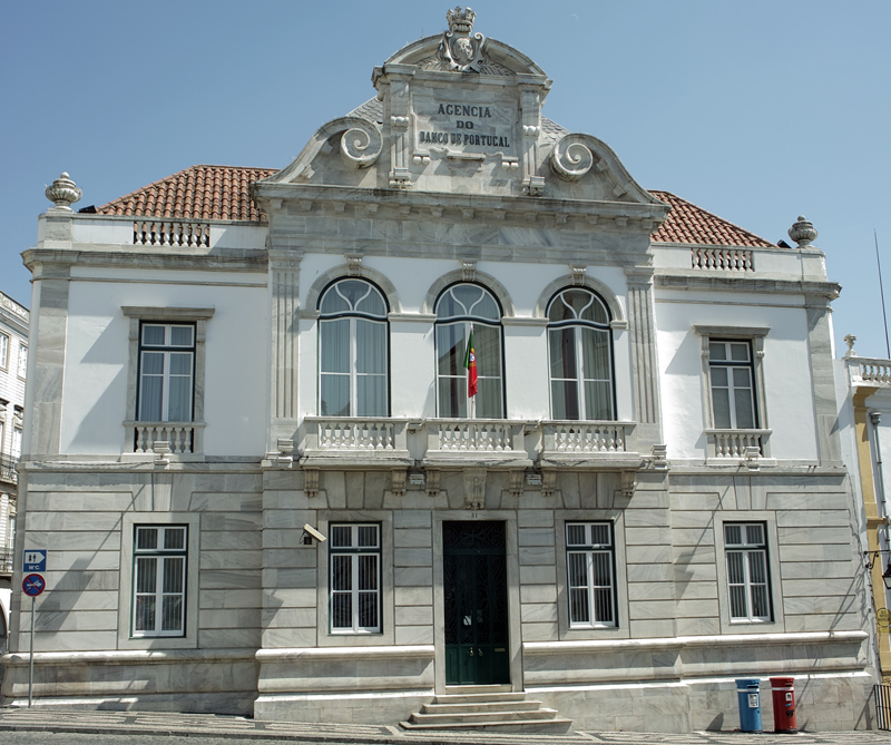 Banco de Portugal branch in Évora (Portugal)